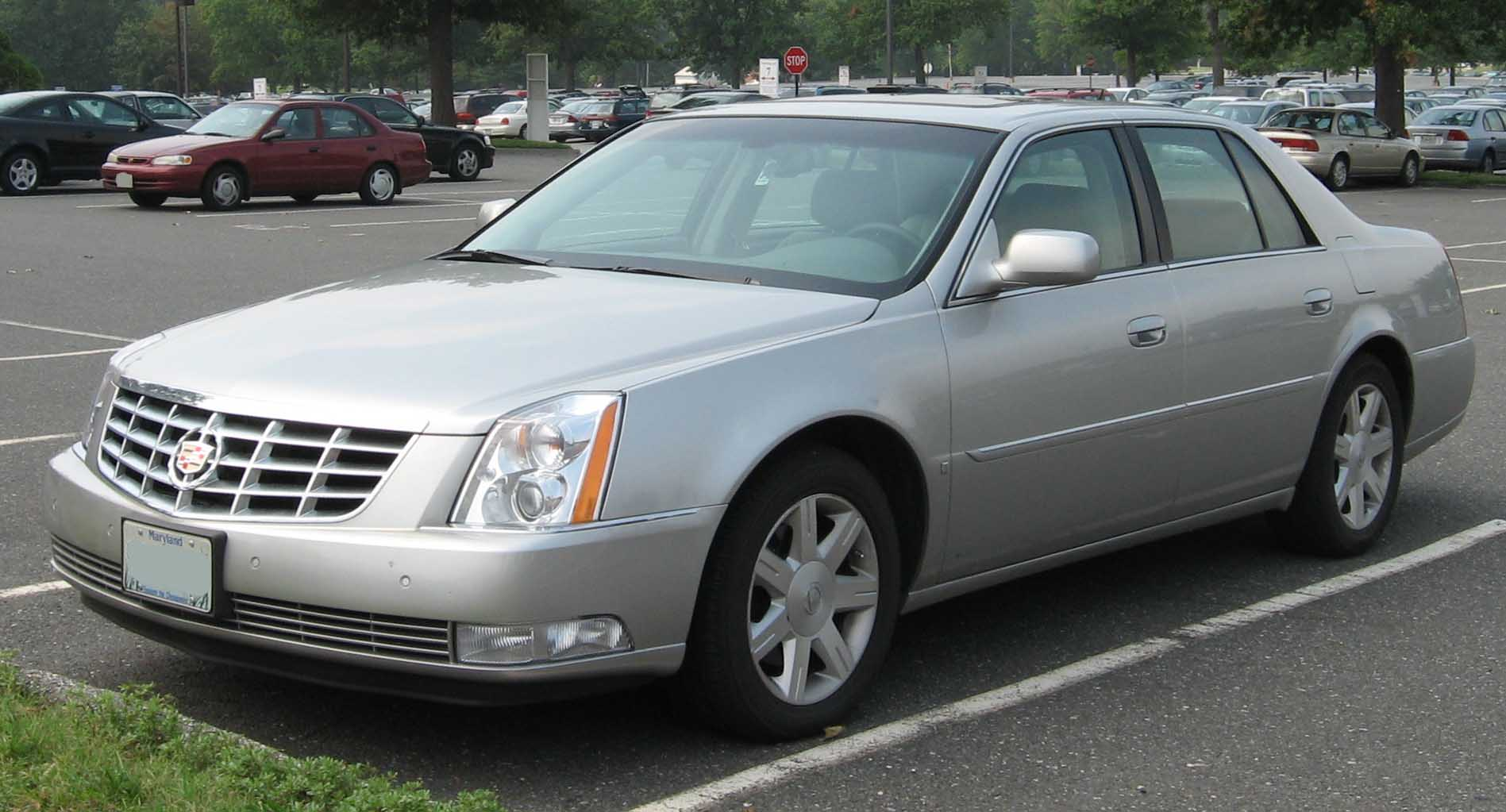 2006-2008 Cadillac DTS photographed in USA.